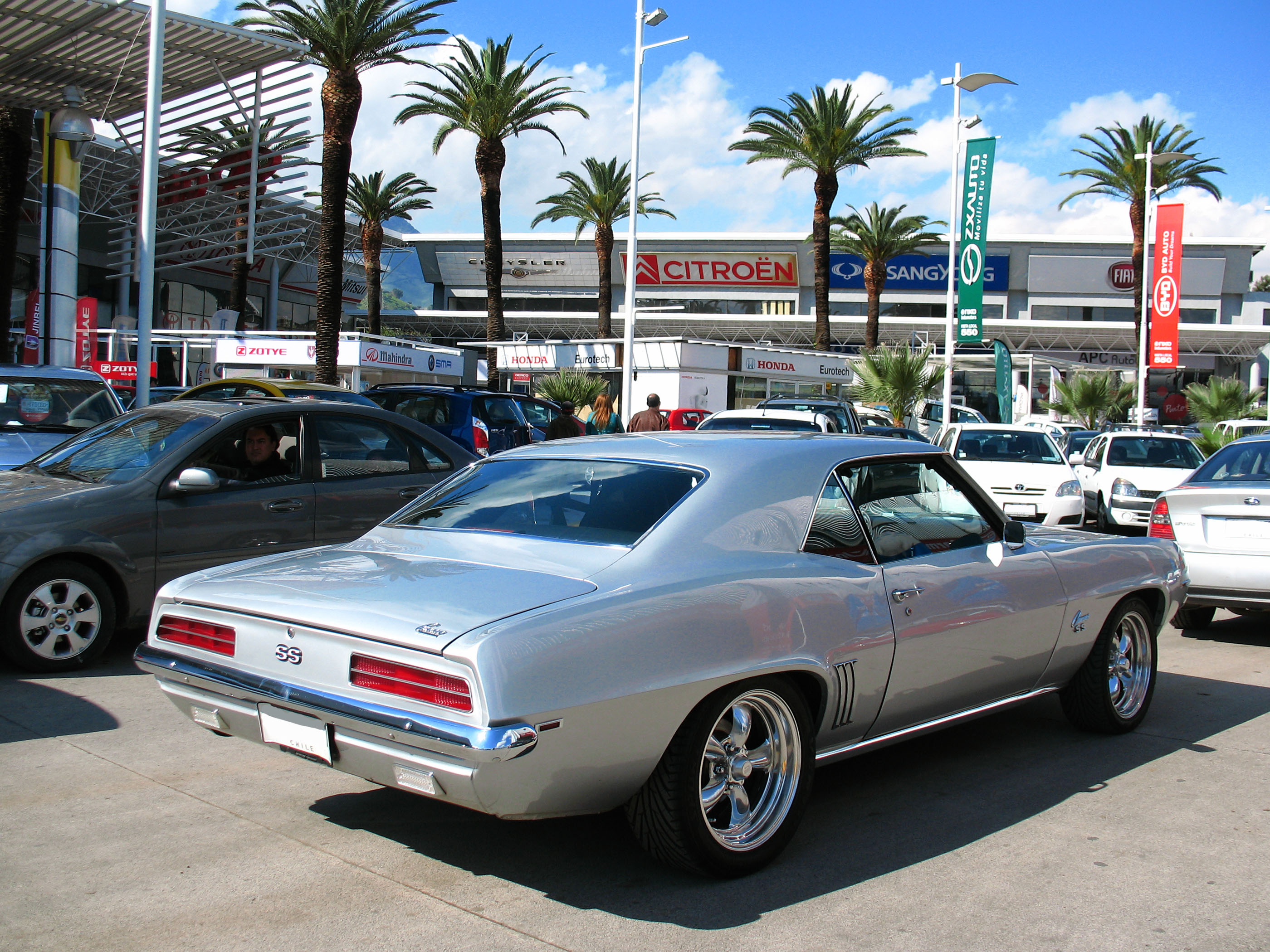 Chevrolet Camaro SS 350 1969